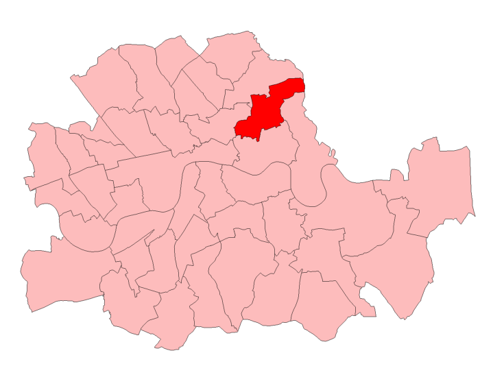 A map of Bethnal Green constituency within the London County Council area, as it existed from 1955 to 1974.